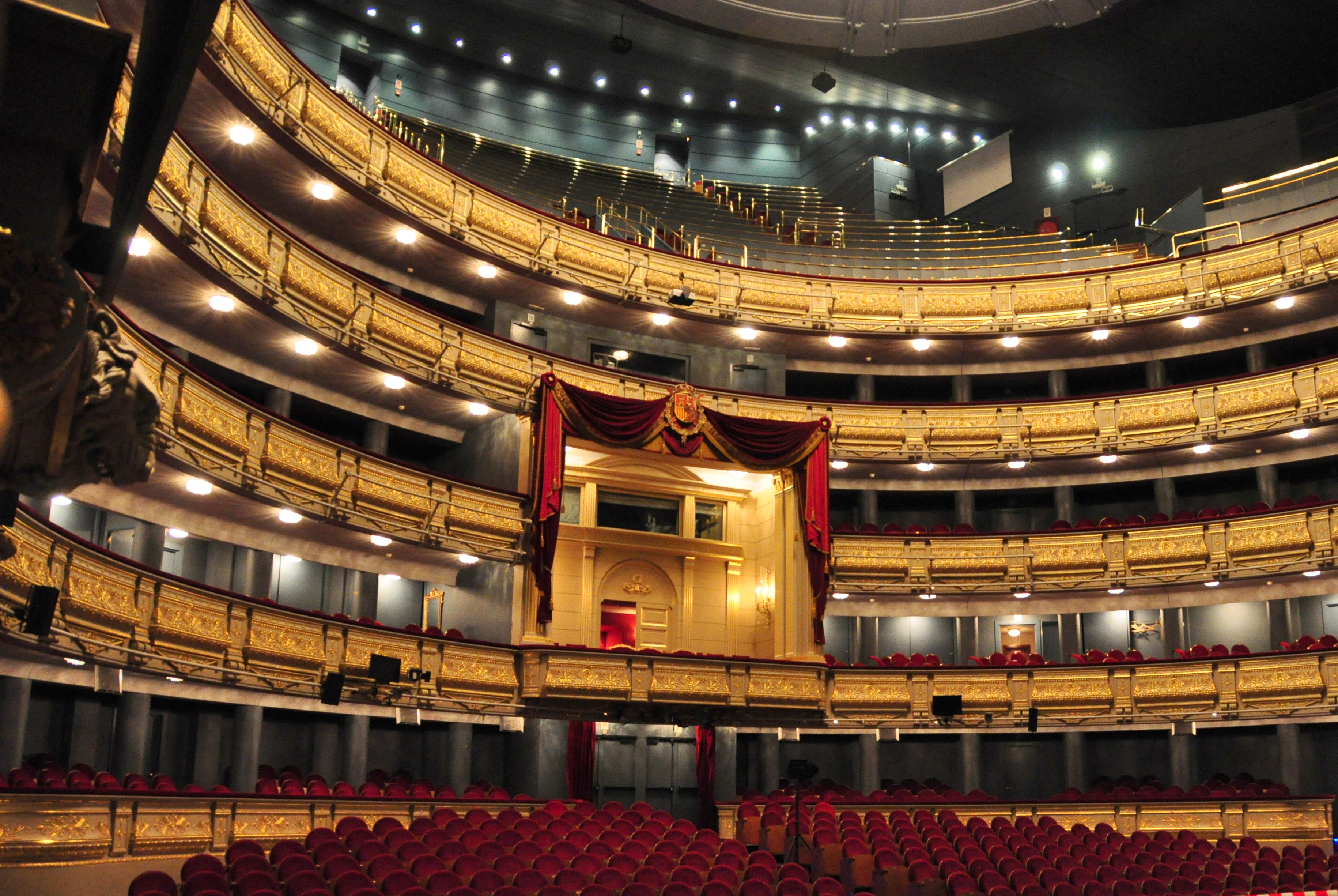 View of Teatro Real main auditorium, with the Royal Box, from the stage.